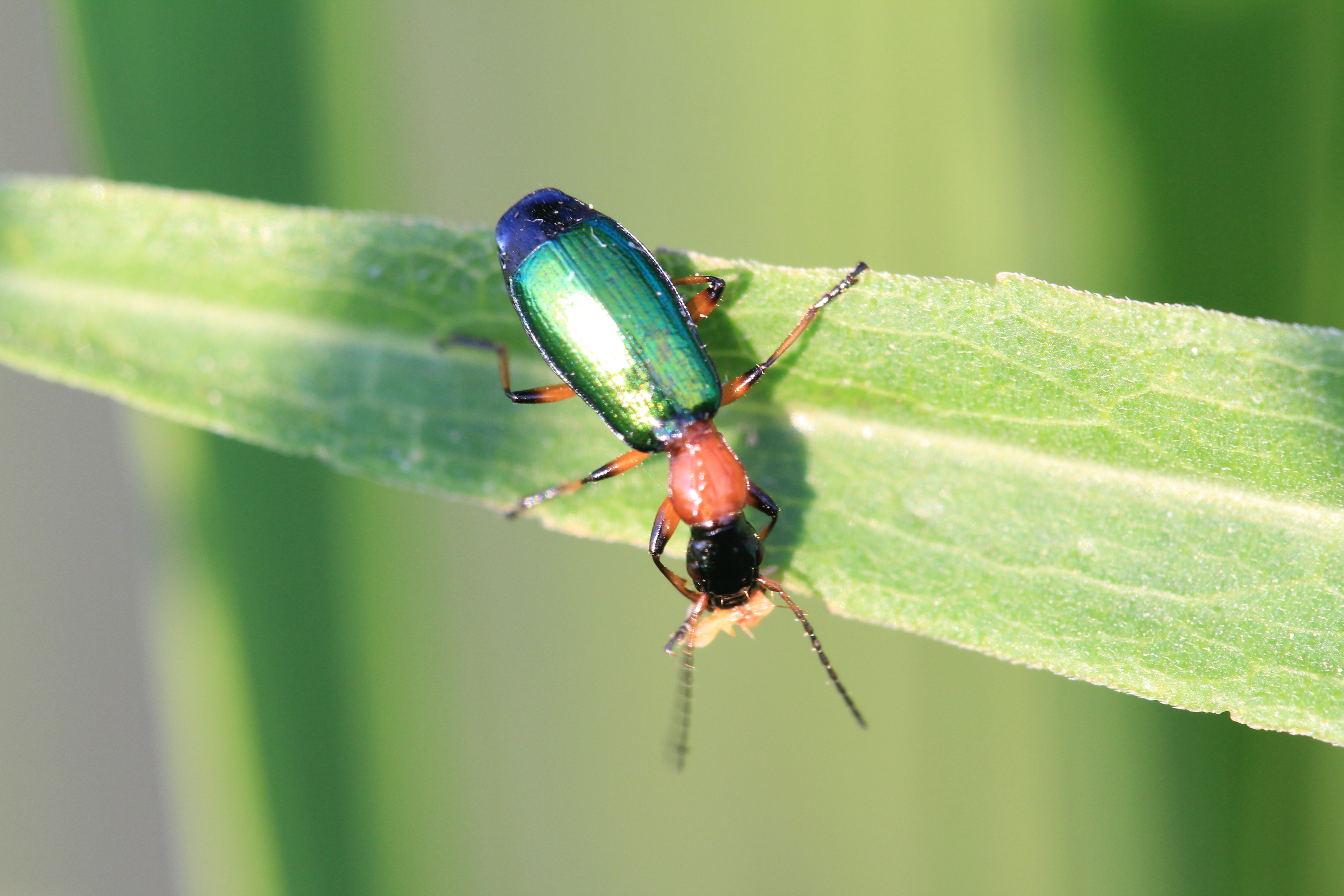 Calleida punctata eating